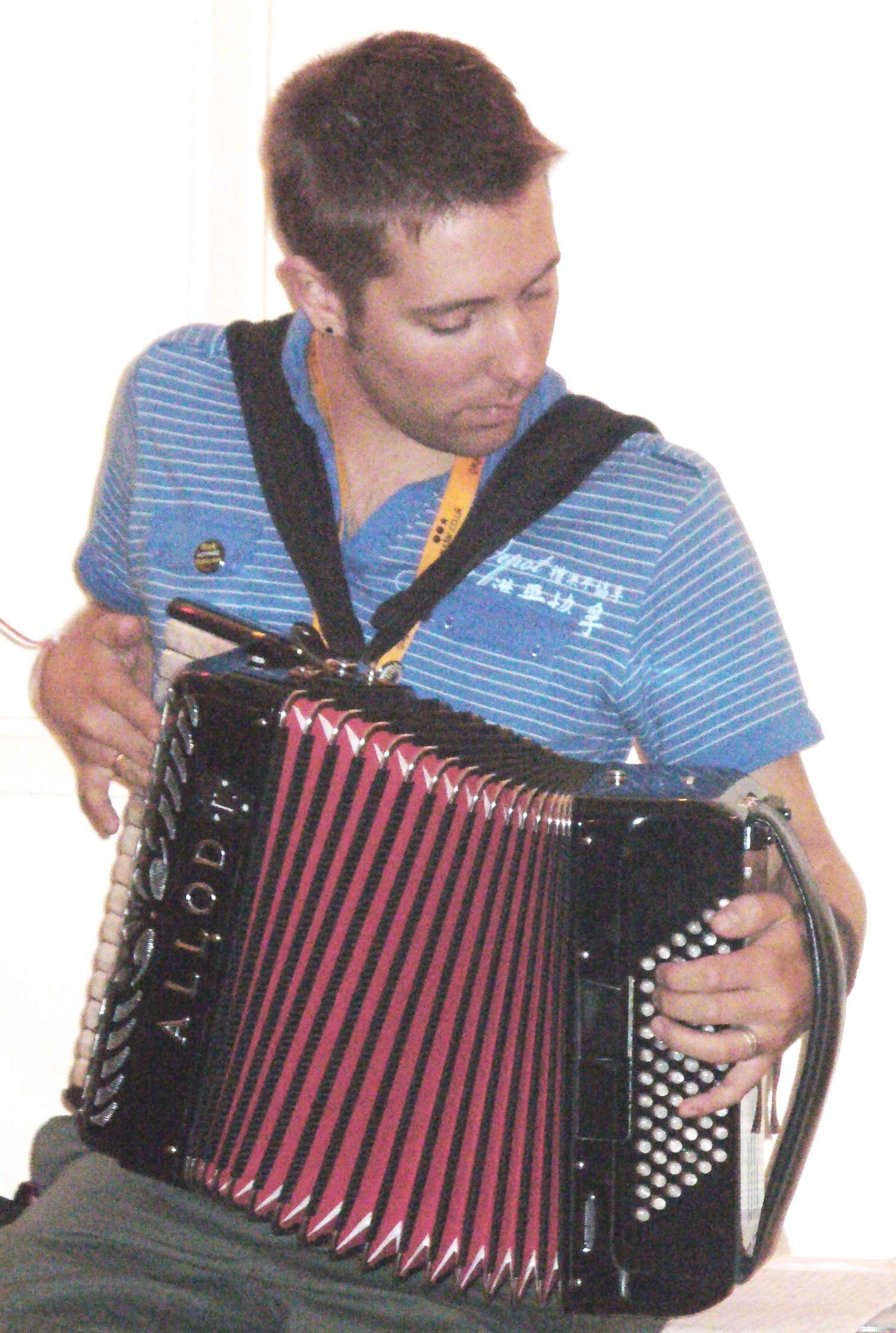 English folk musician Jim Causley playing the accordion at the 2009 Sidmouth Folk Week.